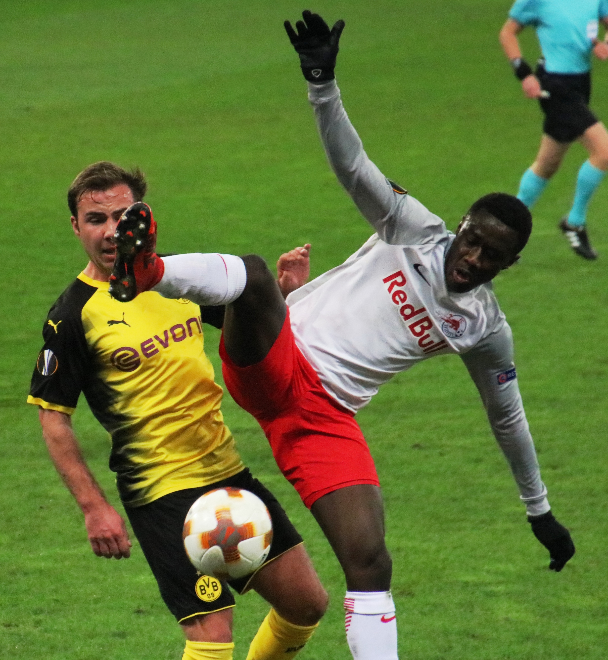 UEFA Euro League Achtelfinale Rückspiel